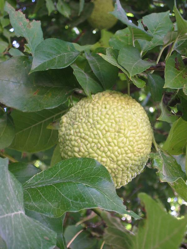 Maclura pomifera Photo taken by User:katpatuka on 13.08.2005 Avanos, Turkey